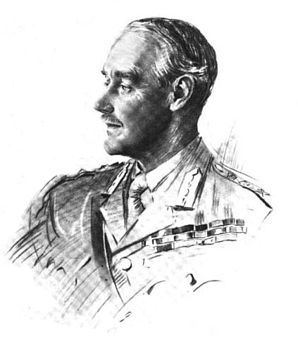 Drawing of Sir Archibald Murray